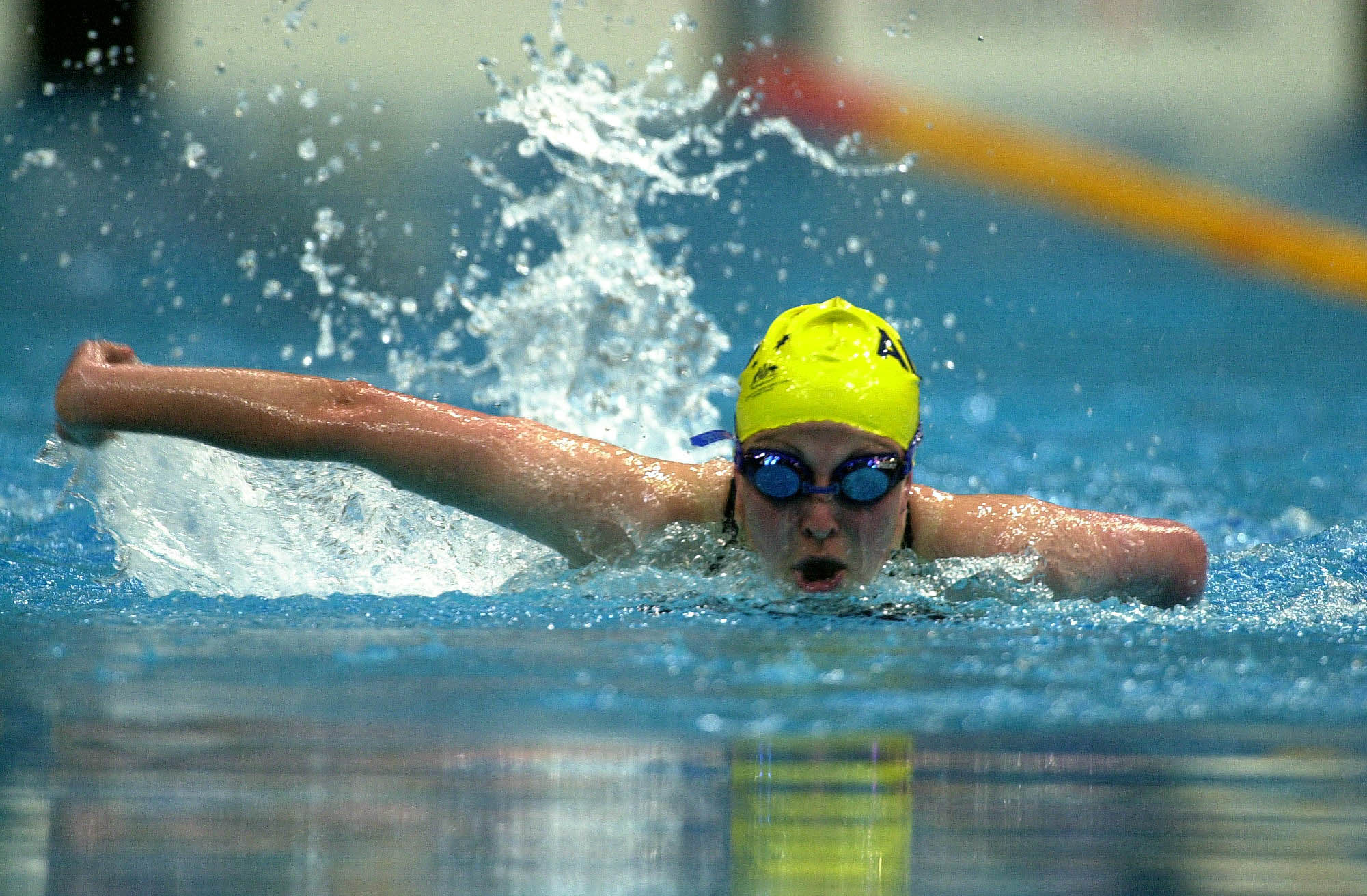 Action shot of Australian swimmer Casey Redford during the 200m medley SM9 event, 2000 Sydney Paralympic Games, Day 02